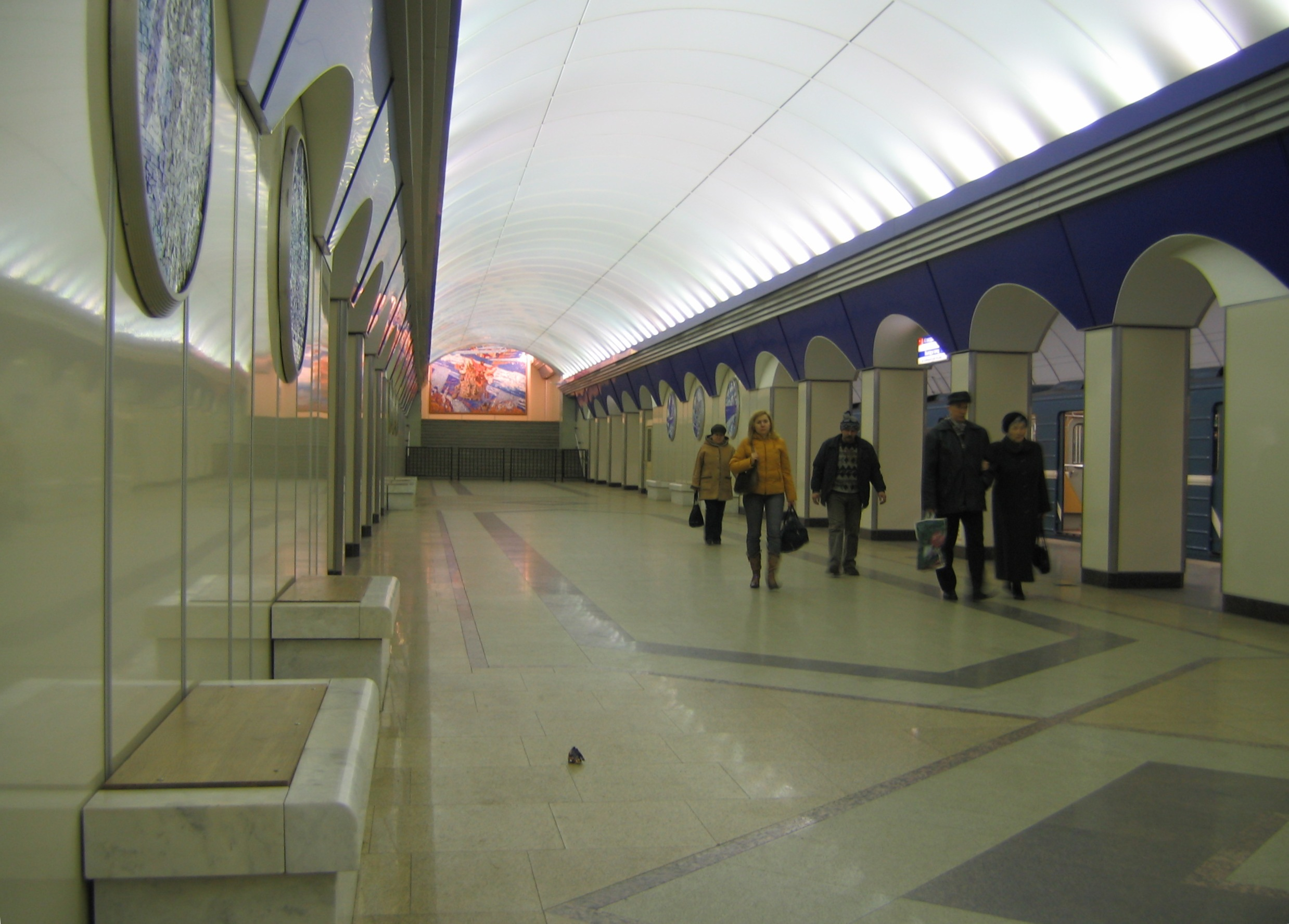 Komendantsky prospect subway station, St. Peterburg, Russia